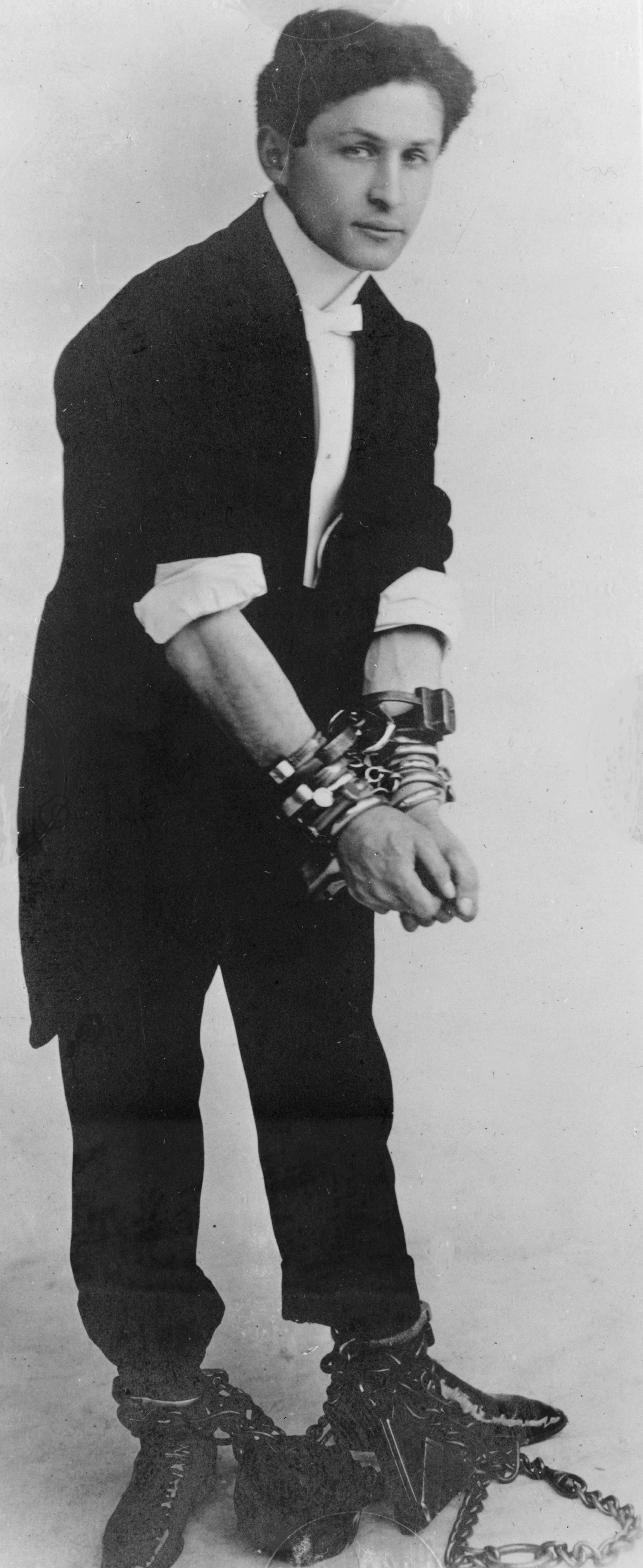 Harry Houdini, circa 1905 full-length portrait, standing, facing right, in chains